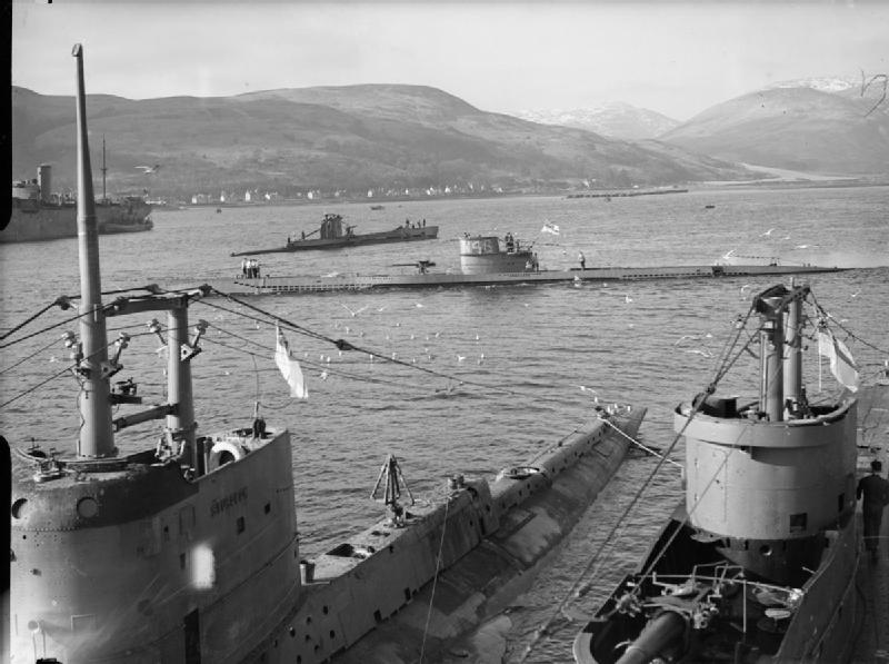 IWM caption : HMS GRAPH (ex U-Boat U 570) at Holy Loch on the completion of a trial trip, passing by a depot ship. In the foreground are the conning towers of HMS STURGEON (left) and HMS TIGRIS whilst submarine P 42 (later renamed HMS UNBROKEN) can be seen in the background.